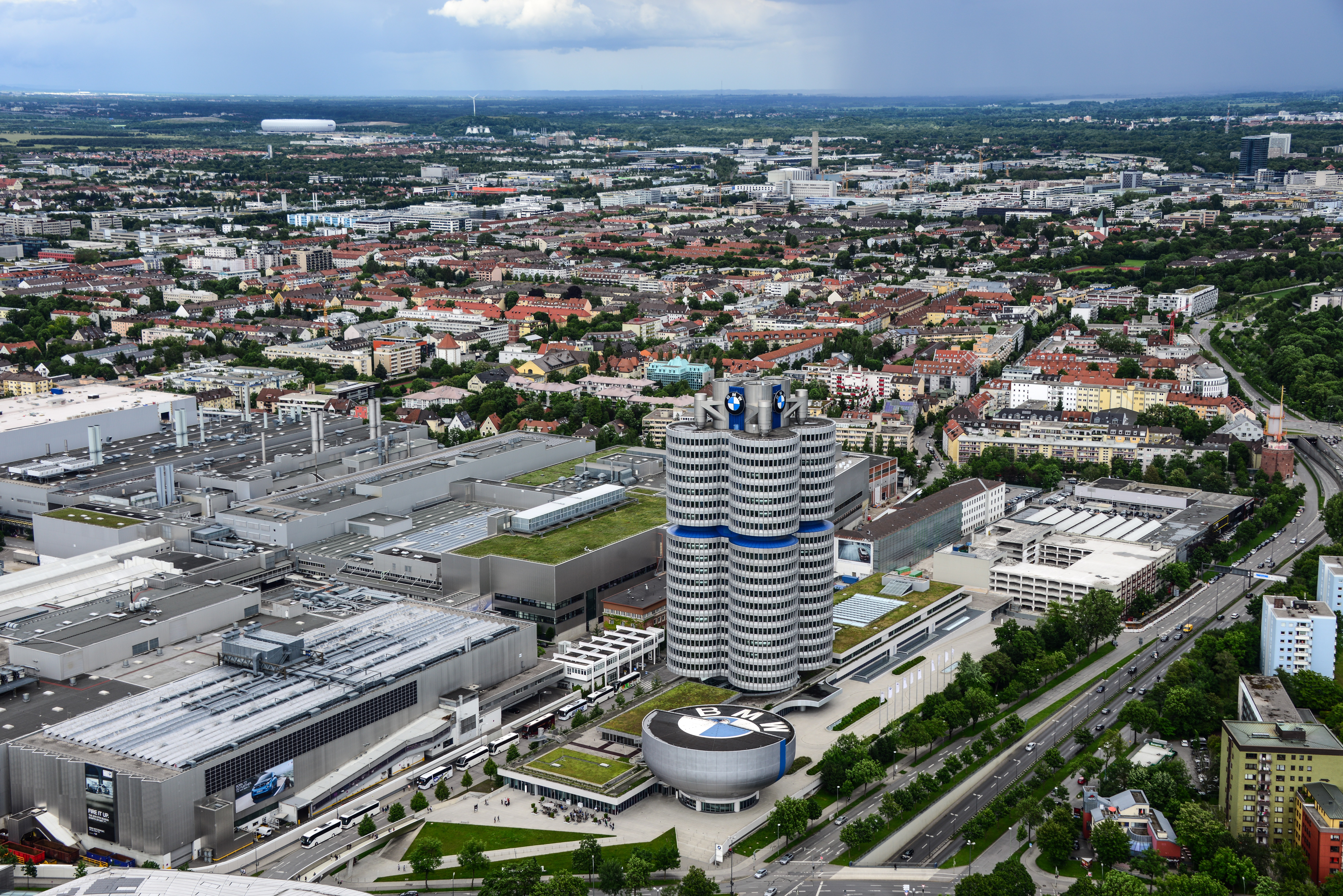 BMW Headquarters